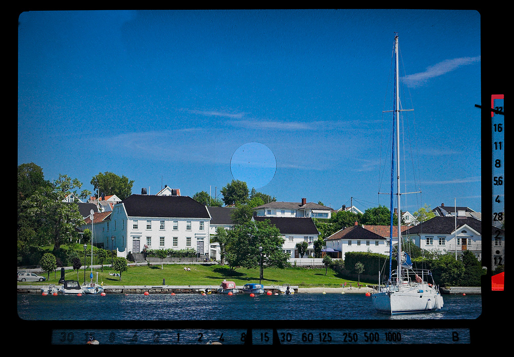 This is what it looks like through the finder of the Canon EF.